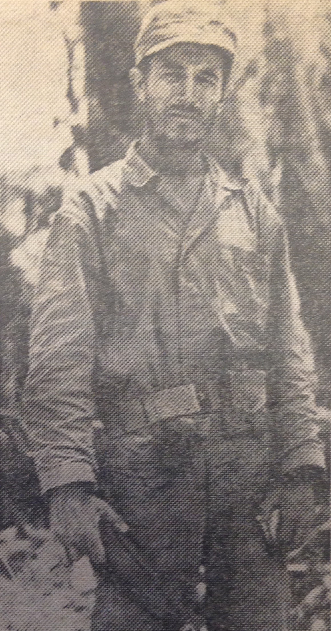 Caption - 1stLt David D. Duncan formerly at El Toro, who participated in the famed Fiji Patrol on Bougainville. The picture was made by T/Sgt. George Circle, Group 46 aerial photographer who was with Duncan at Bougainville.